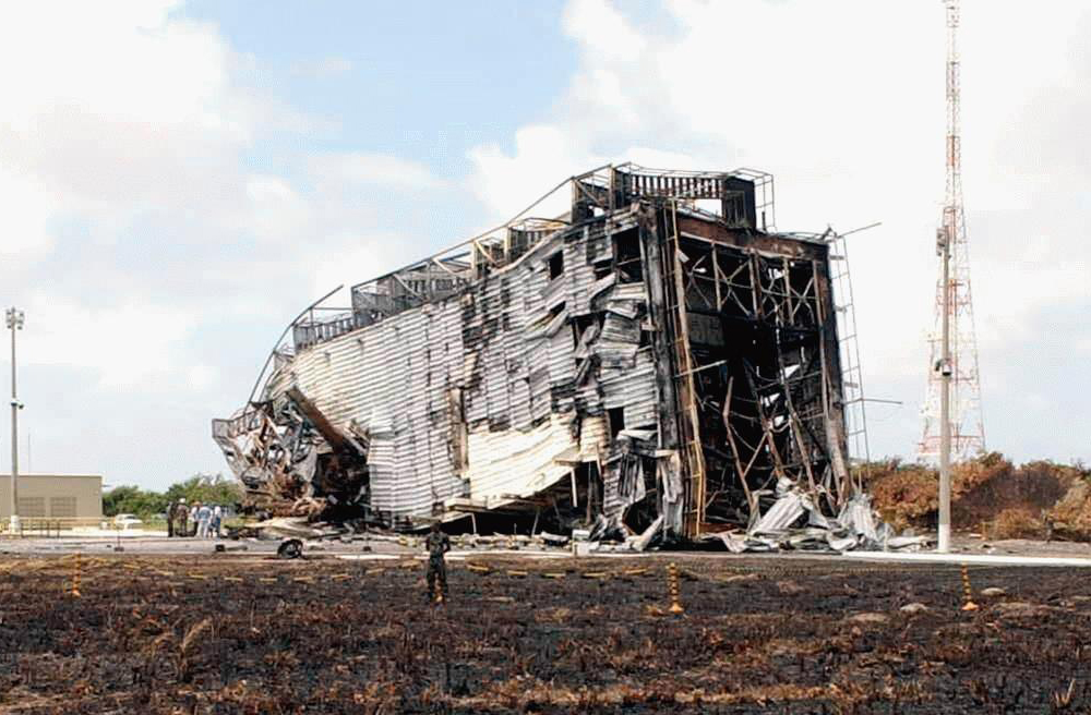 Wreck of the structure of the VLS launch pad due to the 2003 Alcântara VLS accidentUnknownUnknown destroços da estrutura da plataforma de lançamento do vls causado pelo acidente de alcântara